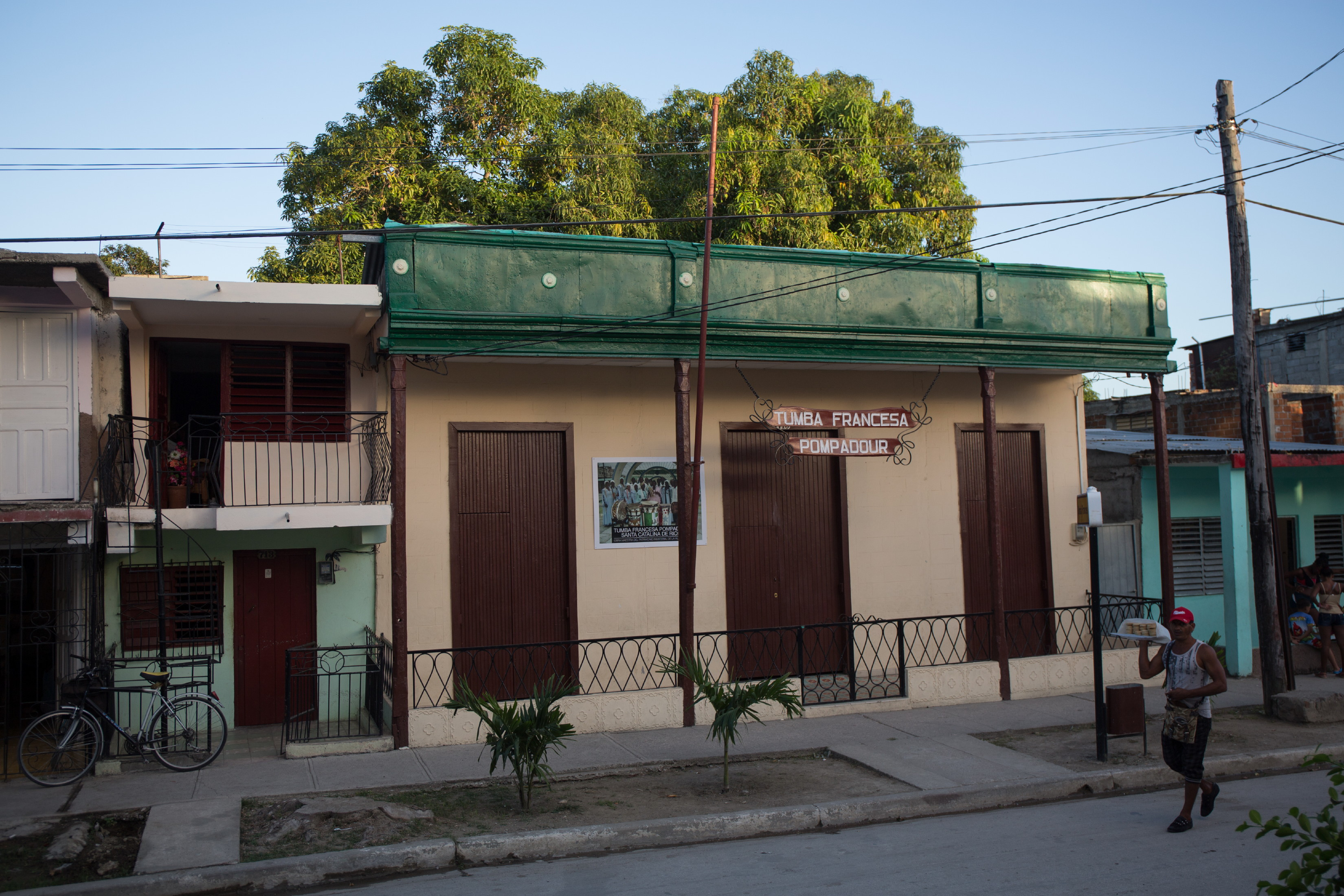 Guantánamo, house of the Tumba francesa